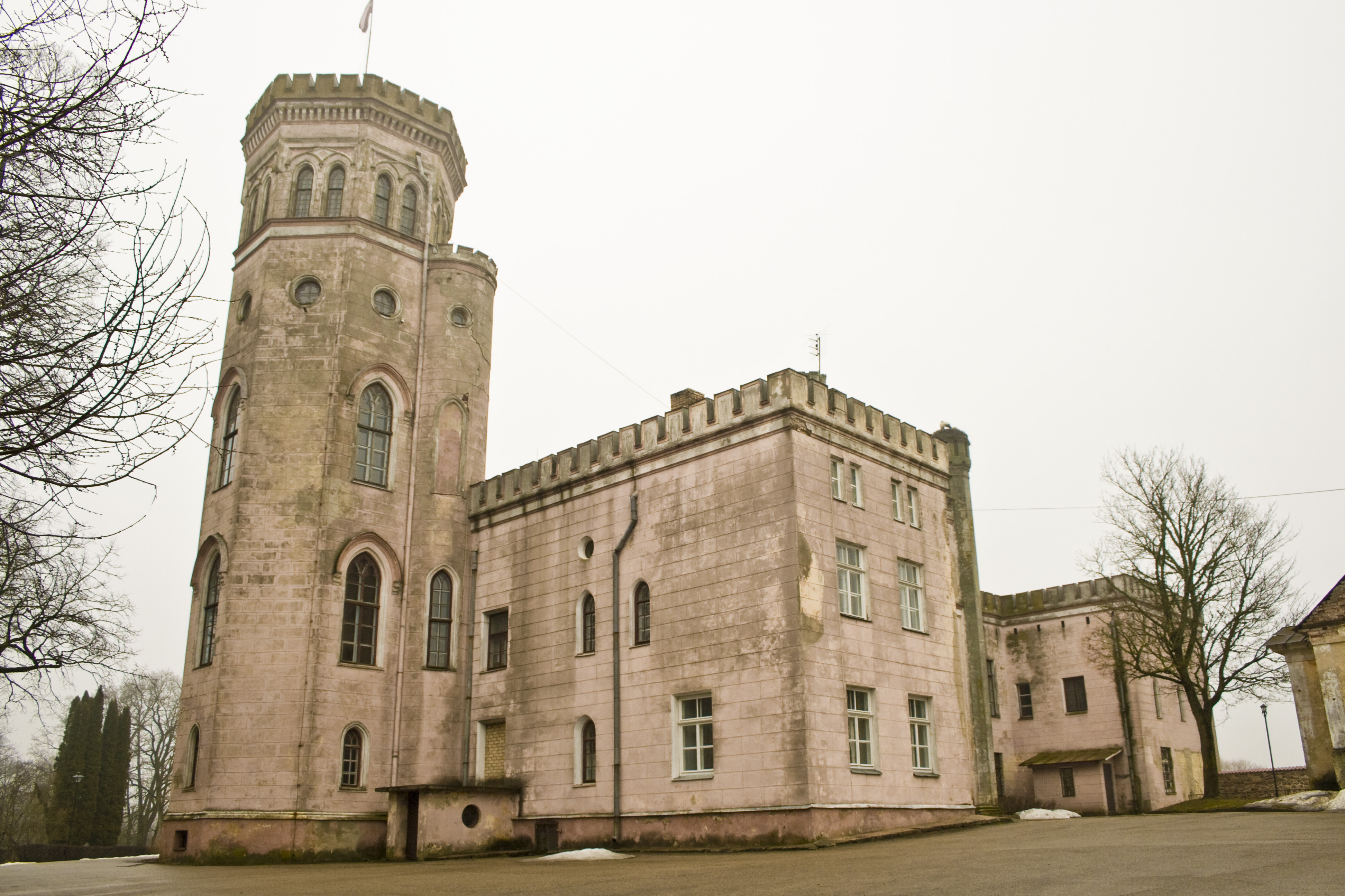 Auce manor, Latvia.